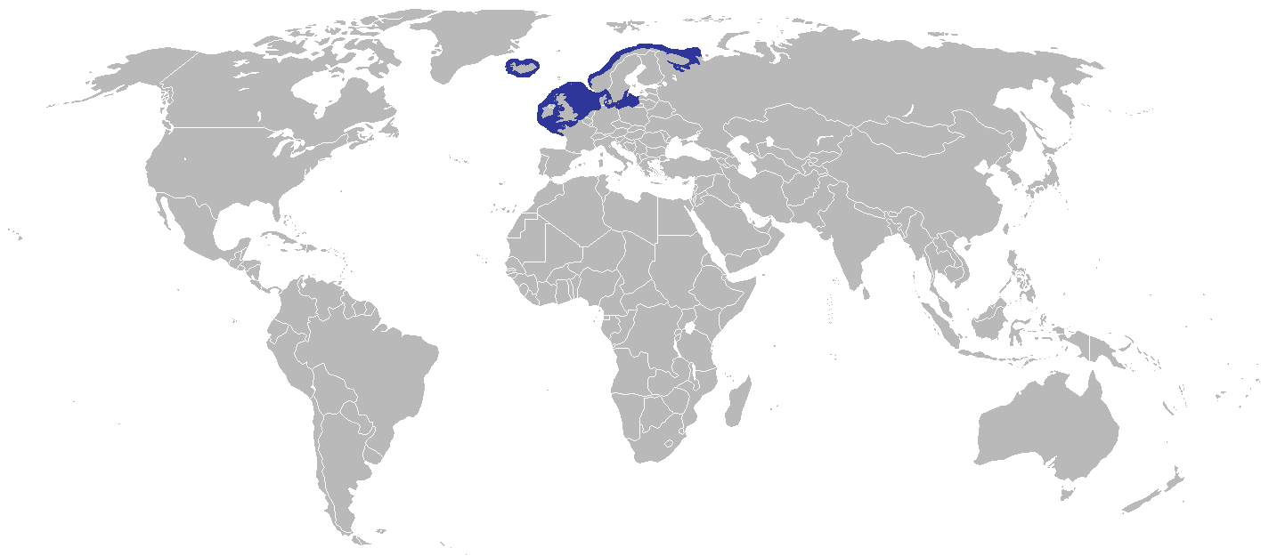 Distribution of common dab, using a blank map of the world showing 2005 borders (i.e. before the independence of Montenegro and Kosovo). Based on Image:BlankMap-World.png; as it is PD, this is too. This map is accurate for the period between May 20, 2002 (East Timor independent from Indonesia), and June 3, 2006 (Montenegro independent from Serbia and Montenegro) — notwithstanding the renaming of Yugoslavia to Serbia and Montenegro on February 3, 2003. Previous map: Image:BlankMap-World-2000.png